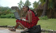 Simba, Tanzanian Masai using laptop